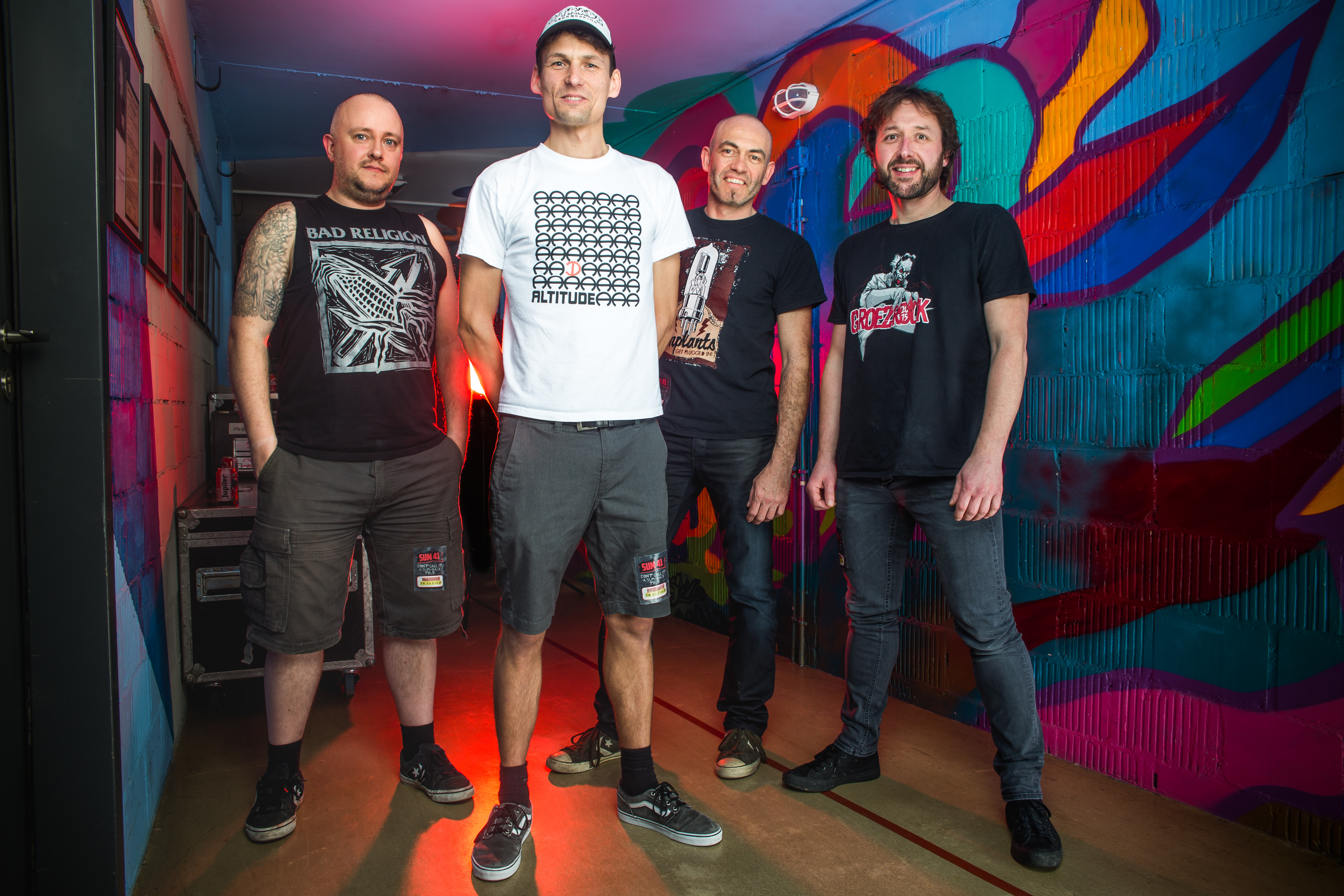 F.O.D. 2017